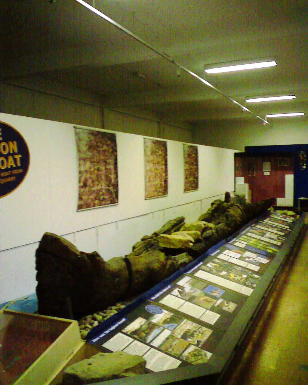 A logboat found hear Shardlow carrying Sandstone from Kings Mills and escavated in 1998/9 its now in Derby Museum